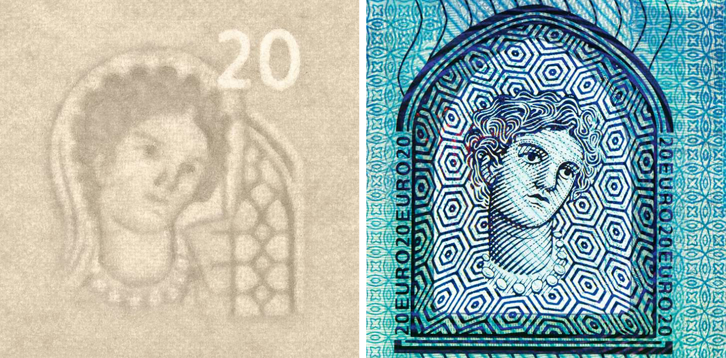 Particulars of the new 20€ banknotes